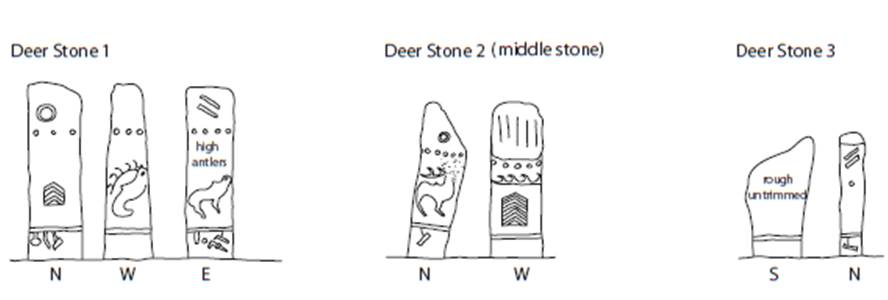 Some examples of small deer stones